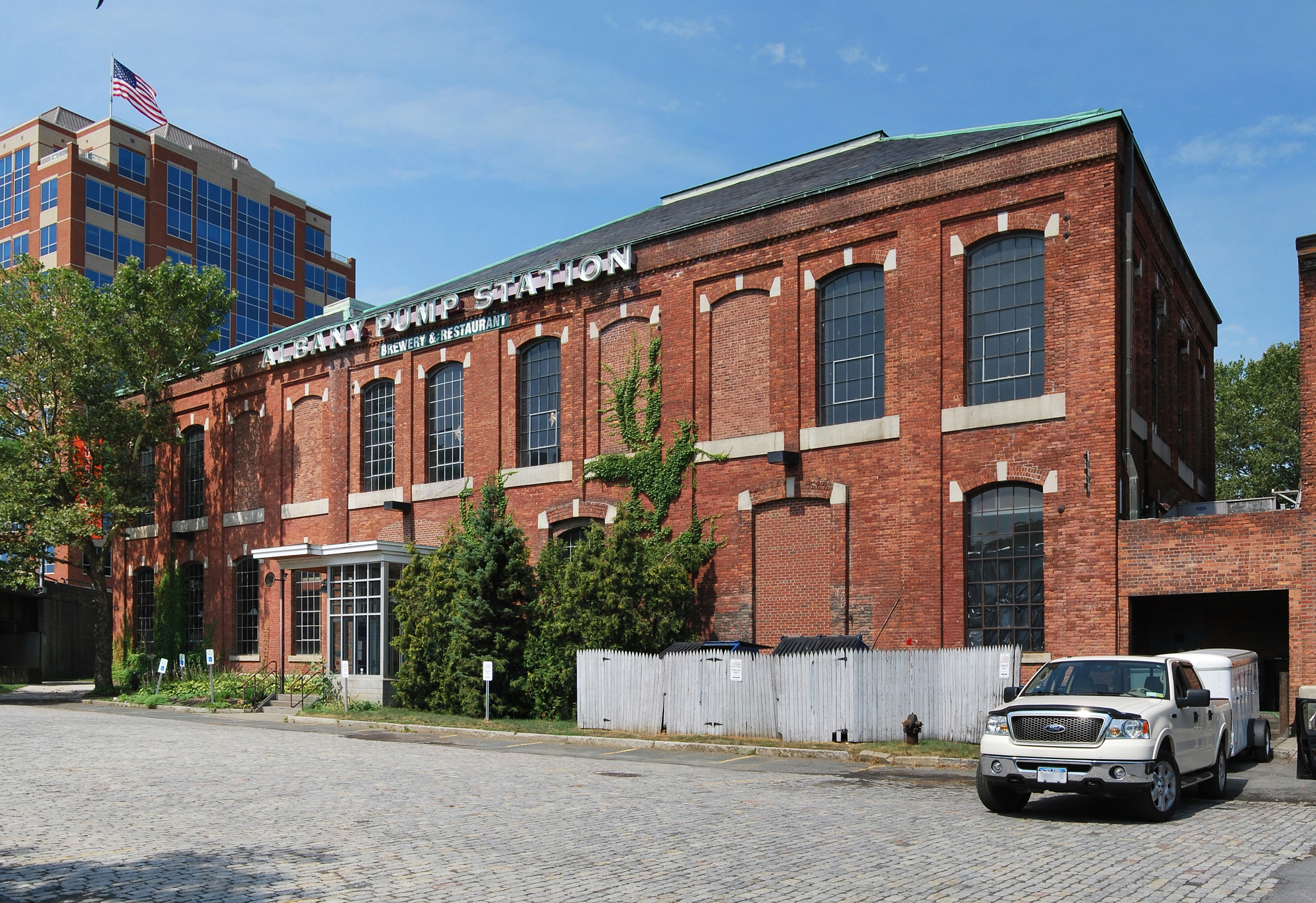 Albany Pump Station, a restaurant and brewery that was once a water pumping station, in Albany, New York